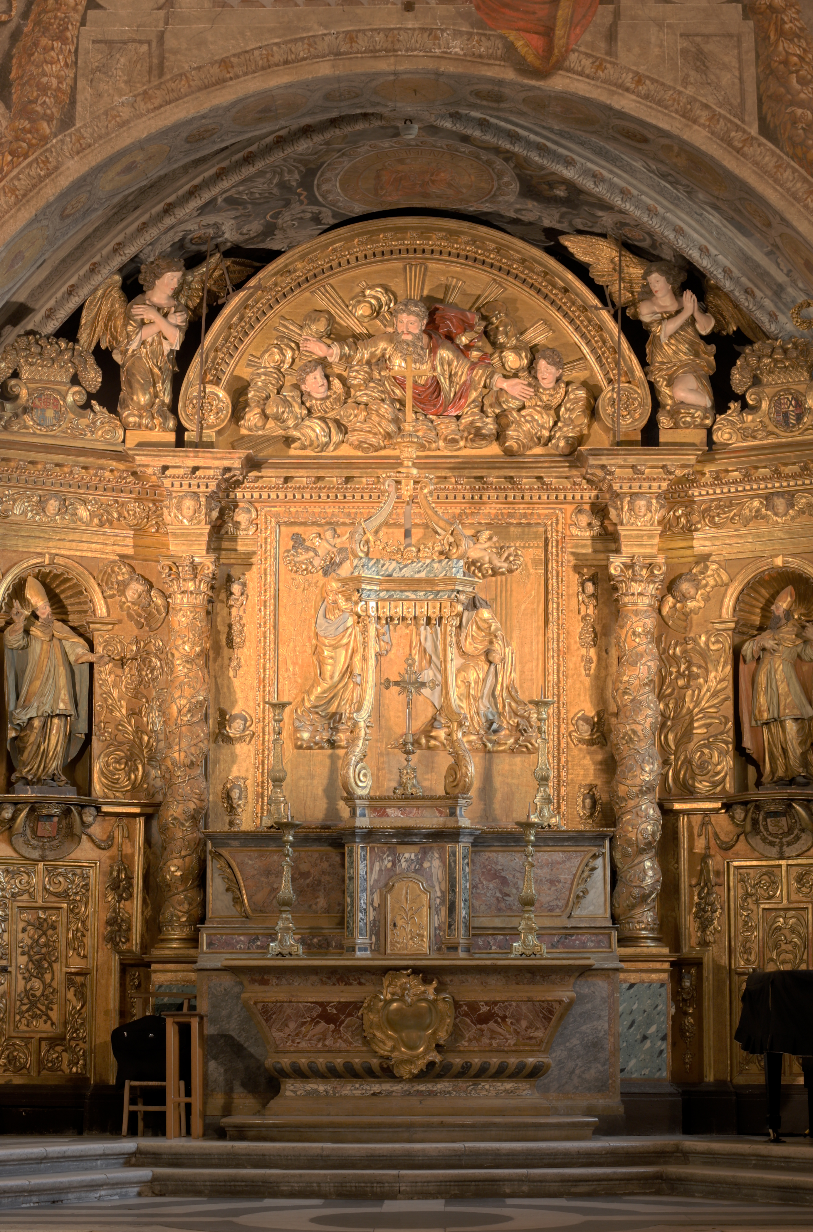 Altar of the baroque chapel of the convent Sainte-Marie-d'en-Haut (Musée dauphinois) in Grenoble.